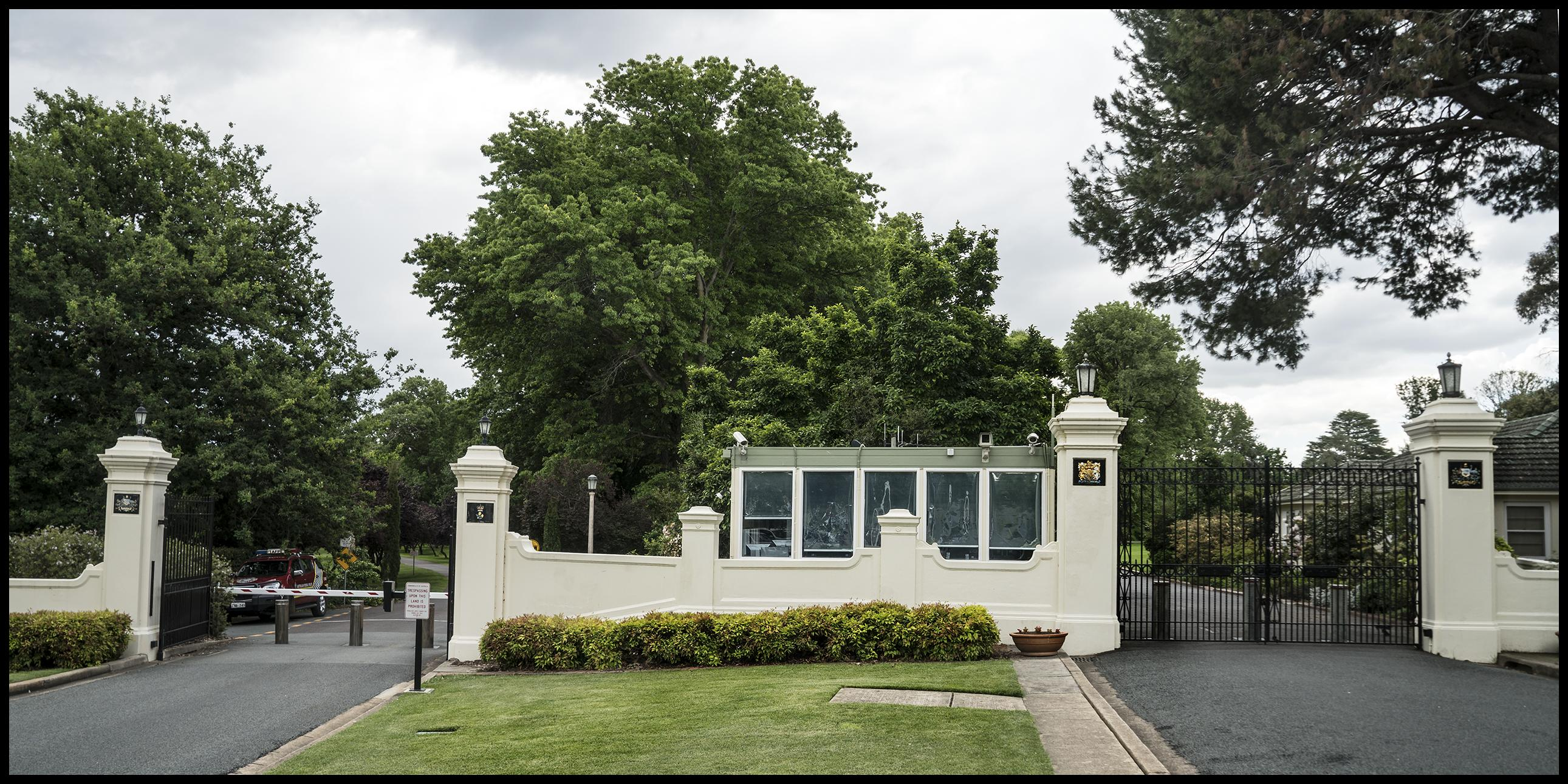 Entrance to Government House Canberra